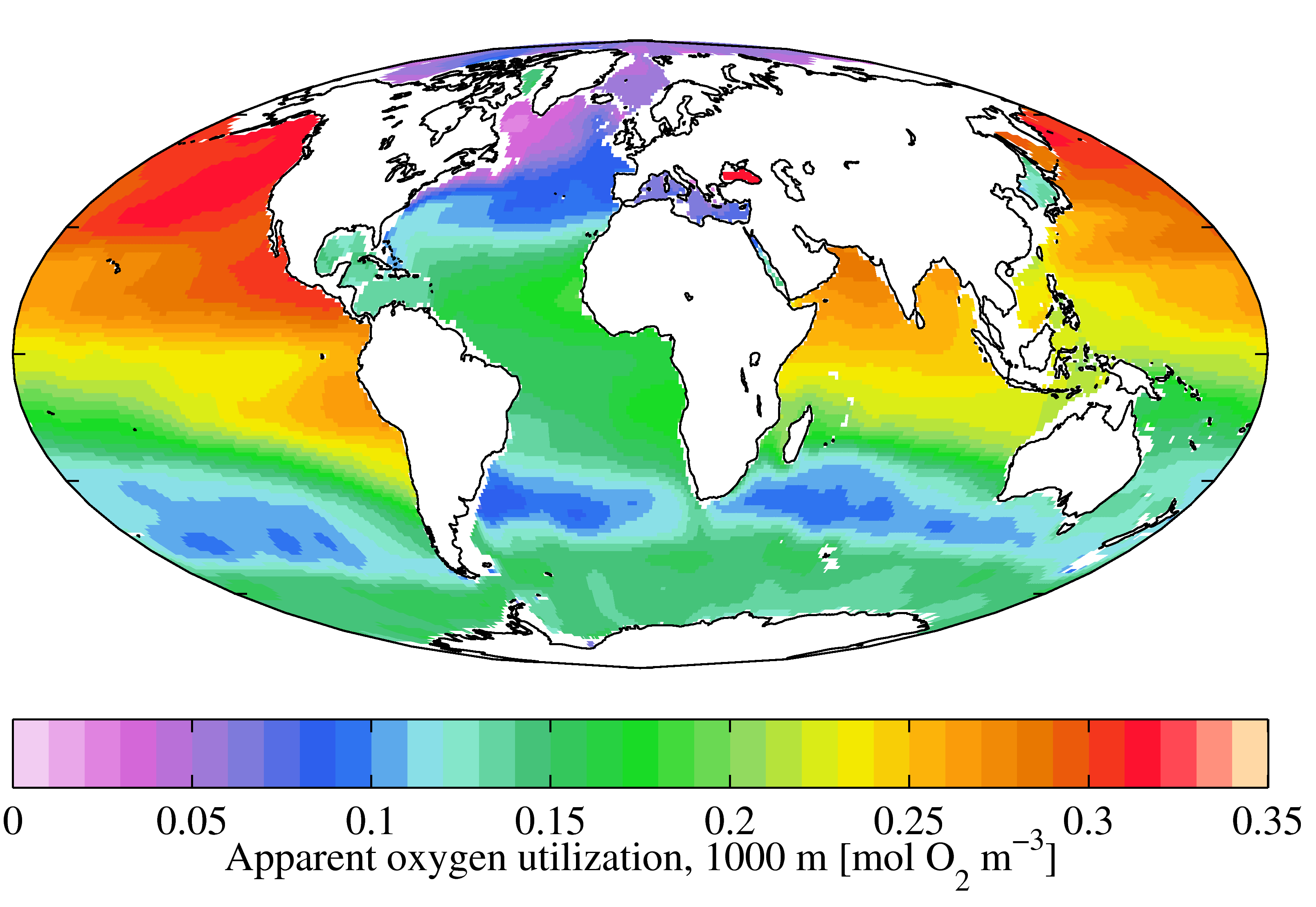 Annual mean apparent oxygen utilisation at 1000 m depth from the World Ocean Atlas 2009. Apparent oxygen utilisation here is in mmol O2 m-3. It is plotted here using a Mollweide projection (using MATLAB and the M_Map package).